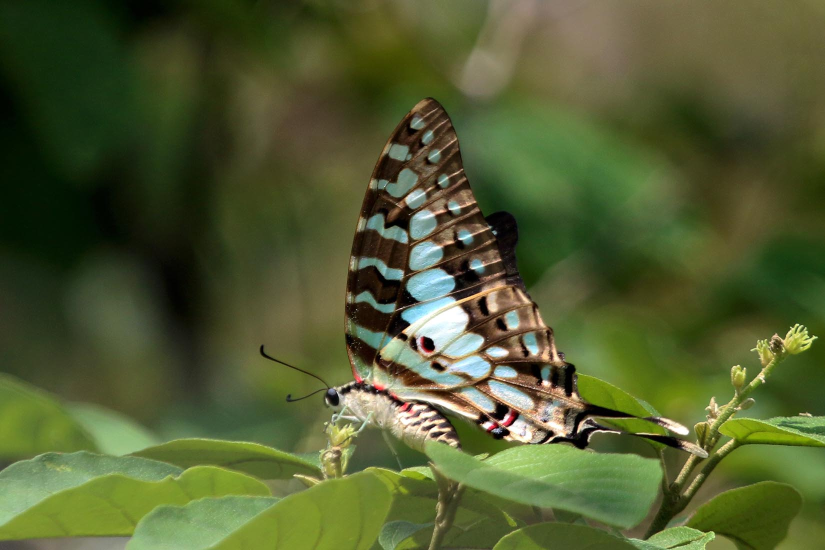 Large striped swordtail butterfly (Graphium antheus), Phinda Private Game Reserve, KwaZulu Natal, South Africa